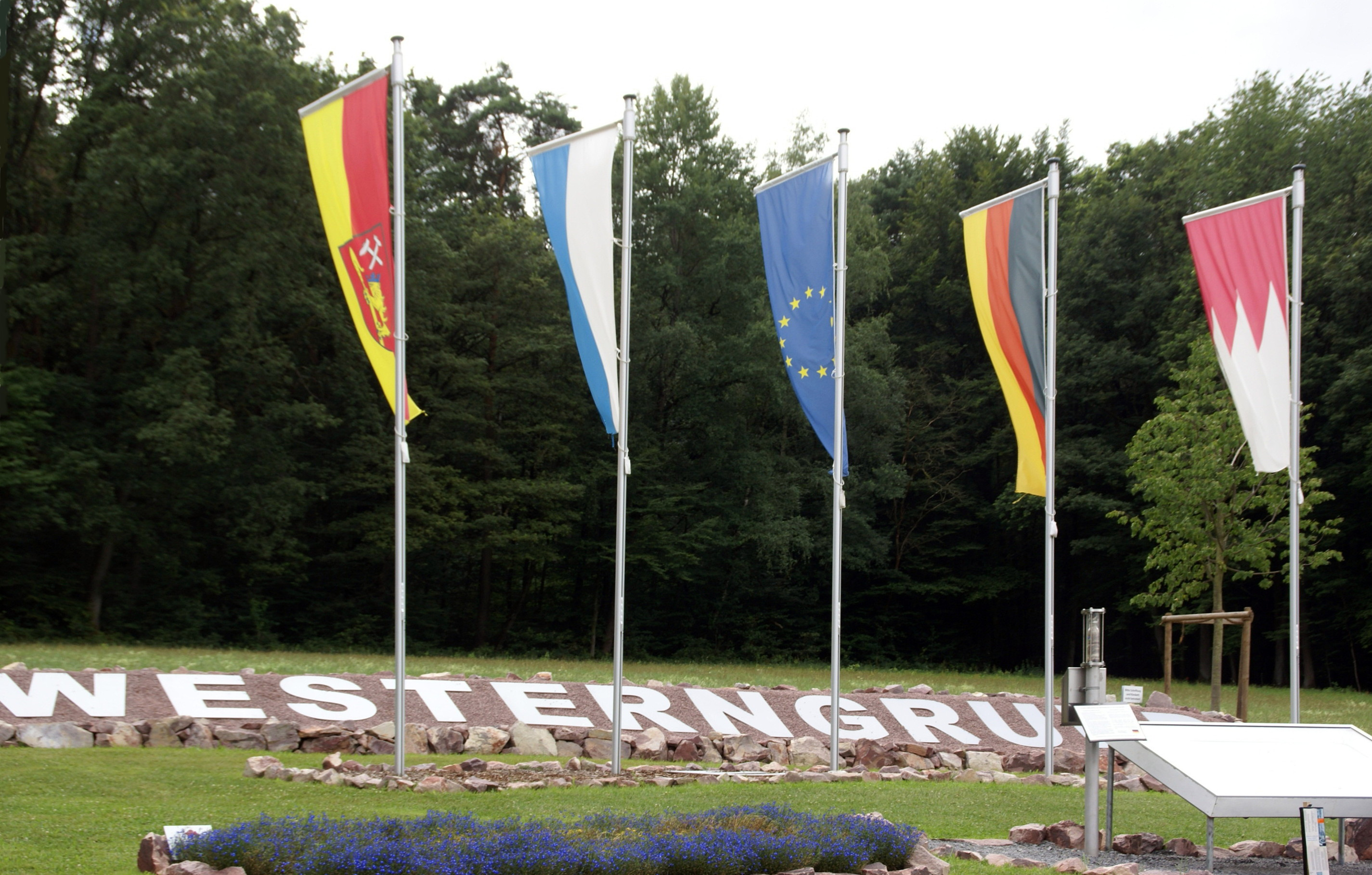 Westerngrund, Kahler Straße: flags of Westerngrund, Bavaria, European Union, Federal Republic of Germany and Lower Franconia (from left) at the geodetic centre of the European Union